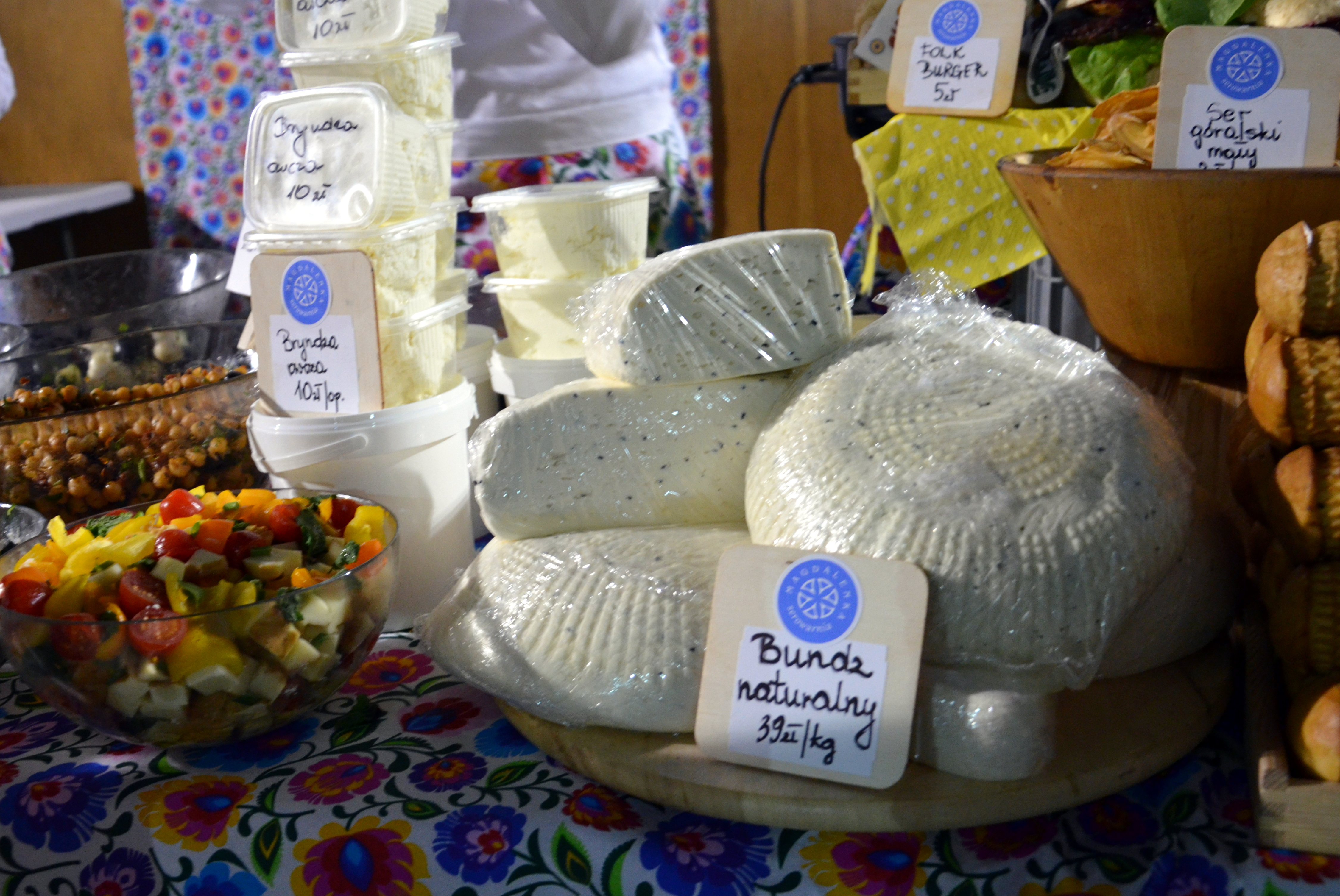 Bundz und Bryndza